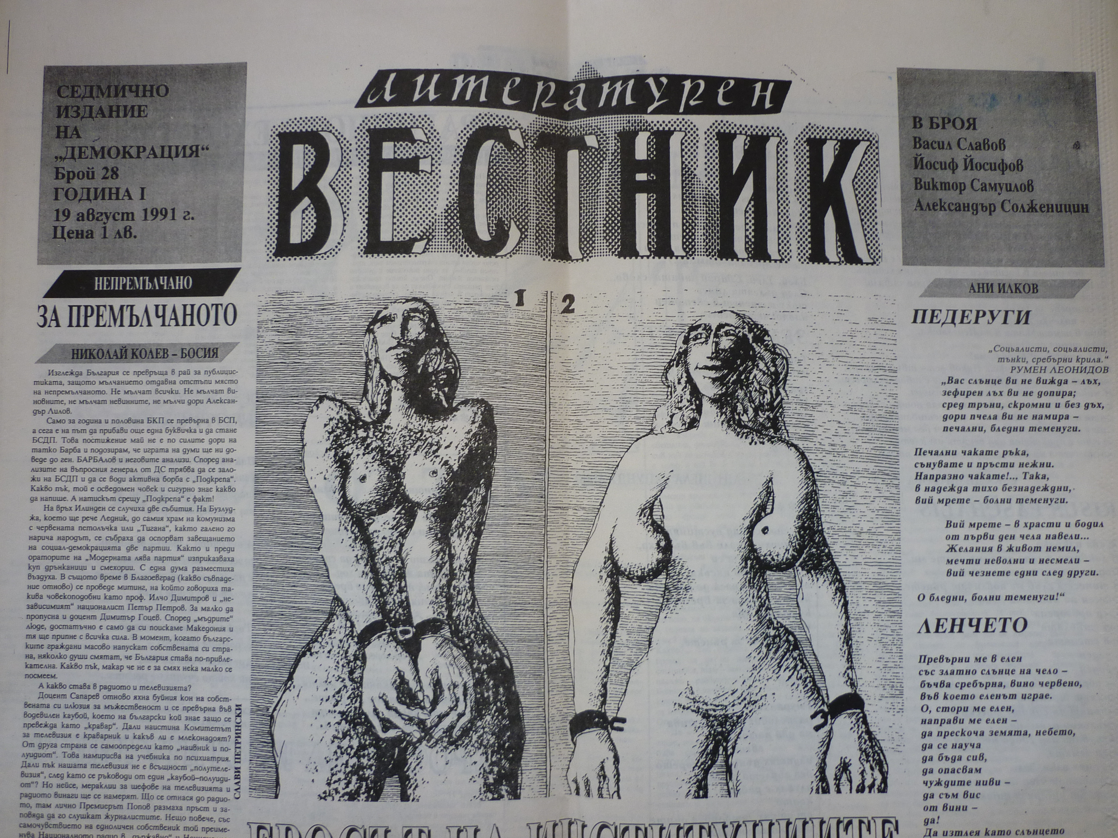 Literaturen vestnik front page from 19 August 1991, # 28.